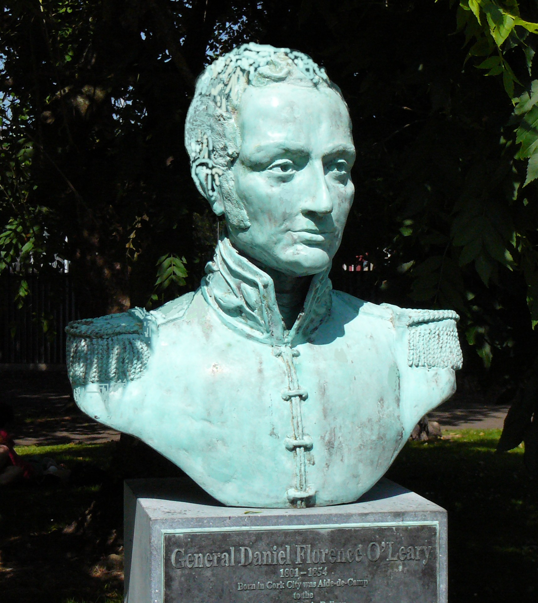 Bust of Danial Florence O'Leary (1801–1854), born in Cork, Ireland, was a military general and aide-de-camp under Simón Bolívar, who helped to win South American Independence. The bust, presented by the Venezuelan Government in May 2010 to the people of Cork and unveiled by the Venezuelan Ambassador to Ireland, stands beside the Cork Public Museum in the Fitzgerald Park, Cork city, Ireland.